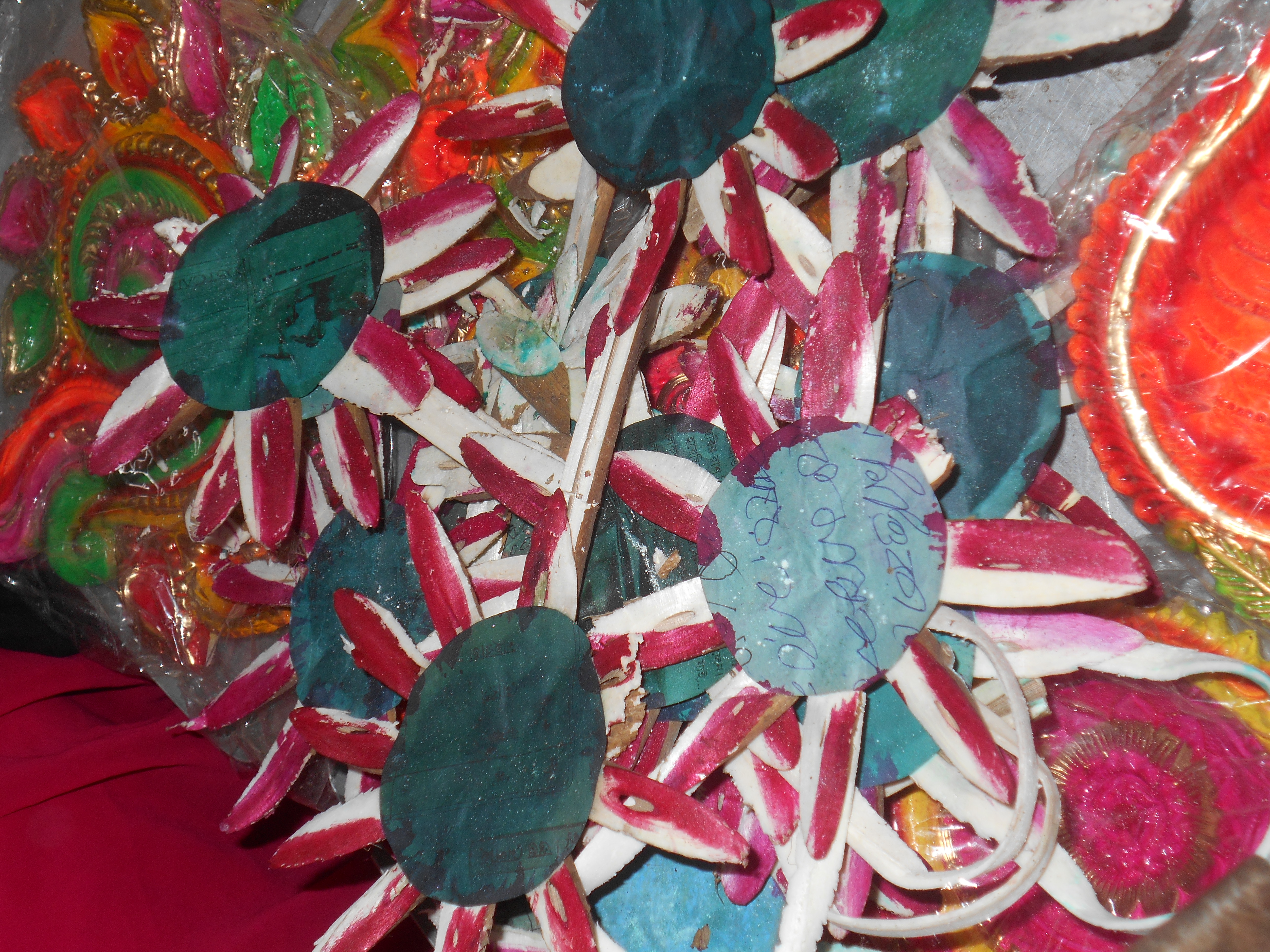 This is a special Chand Mala particularly used for Agomeswari Mata.